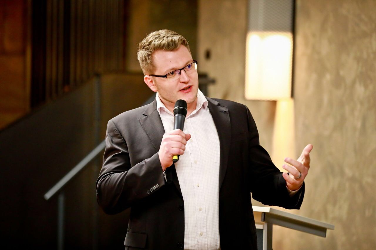 Peter Wilfahrt (Author, Entrepreneur, Digital Native) during a Keynote speech in Bayreuth, Germany.